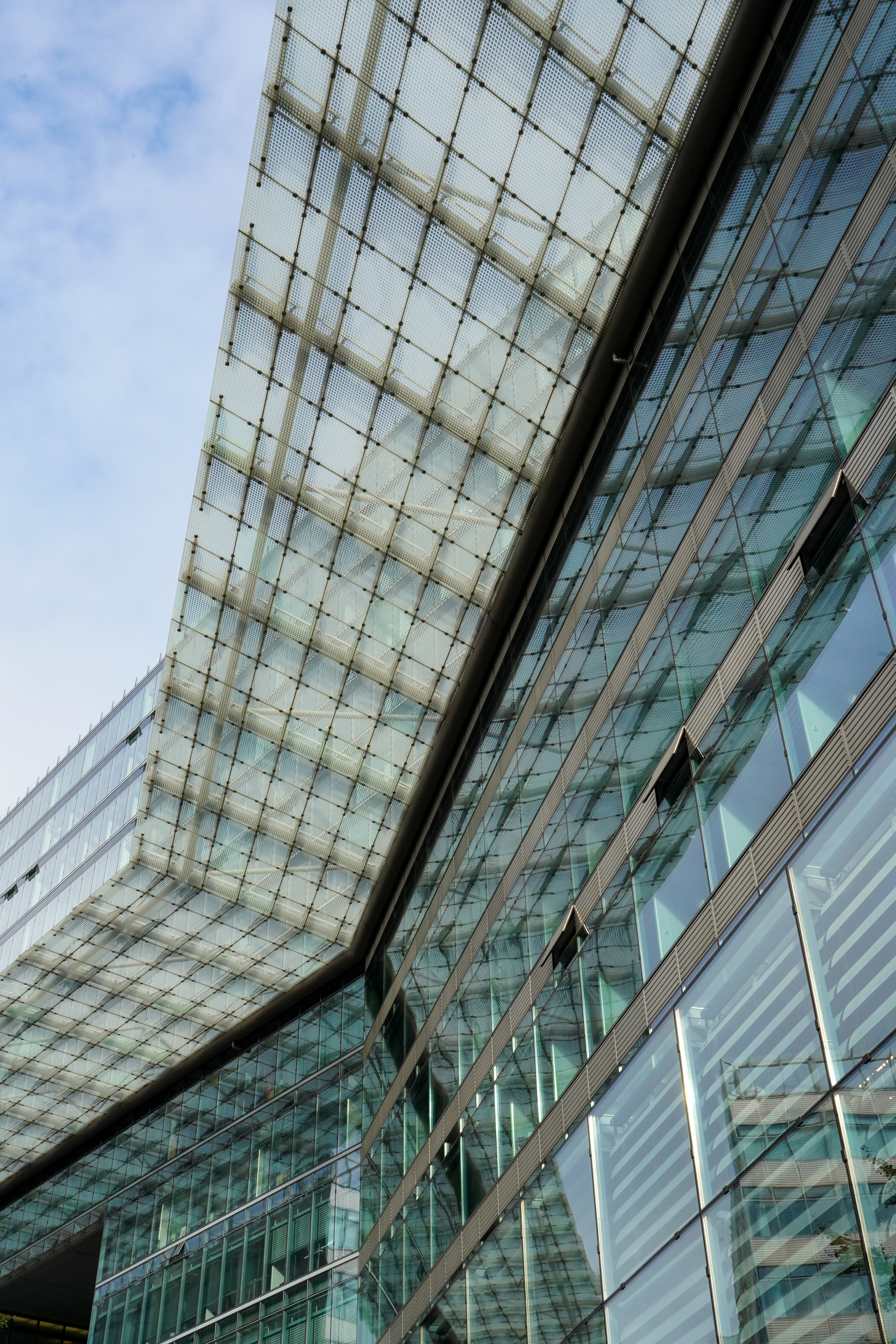 Neues Kranzler-Eck, Charlottenburg, Berlin, Germany, October 2019.